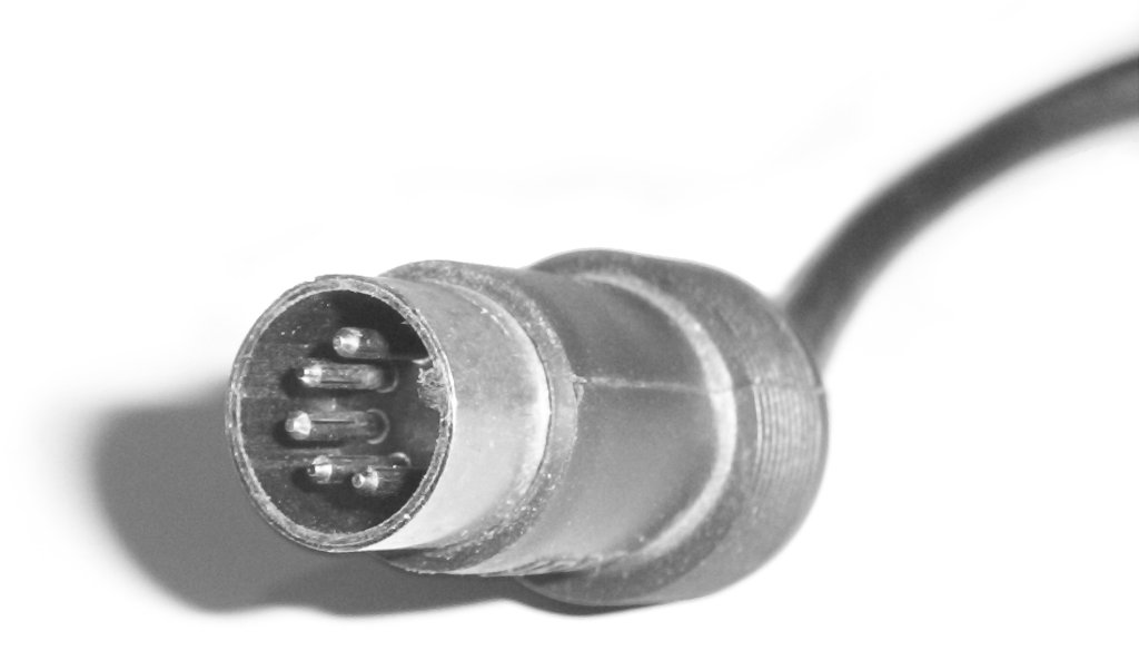 5-pin 180° DIN connector from keyboard of original IBM PC, note the unusually thick shielding skirt. Current version is an original photo by boffy_b, taken 30th January 2005. First version is an original photograph by Andrew Alder, taken on 11 November 2003.